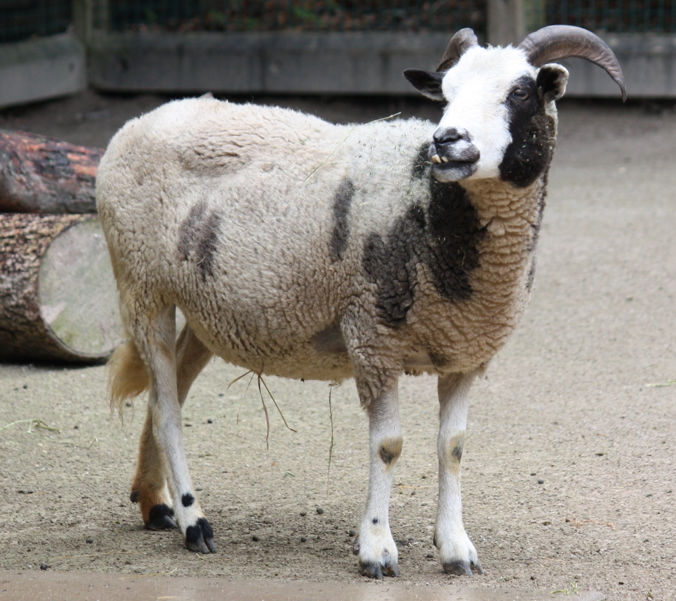 Jacob Sheep at Binder Park Zoo in Battle Creek, Michigan